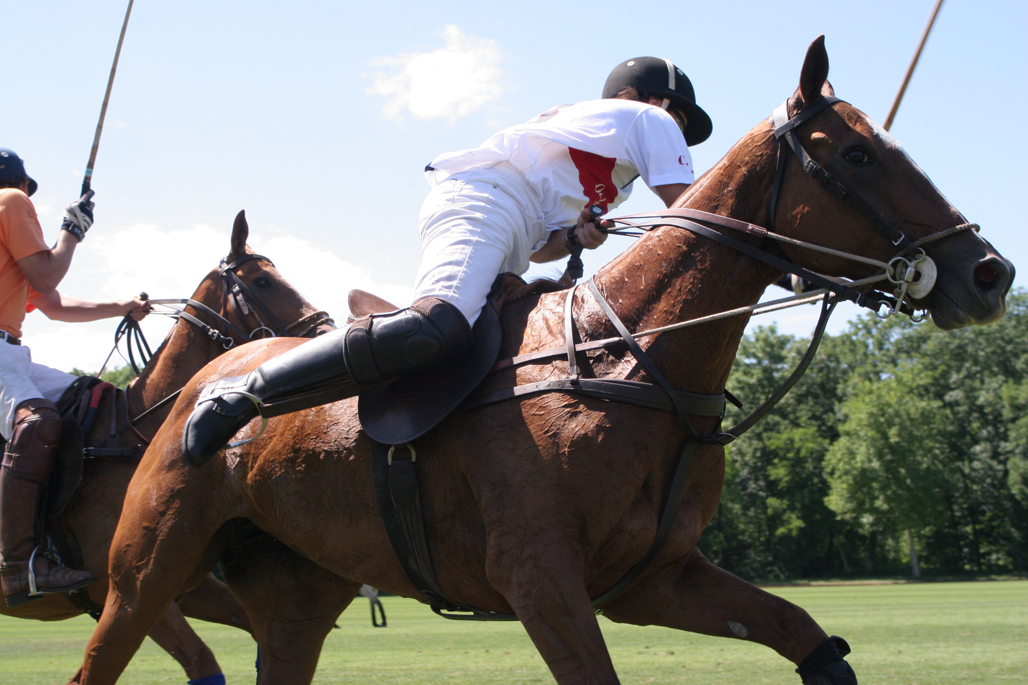 Polo nearside swing